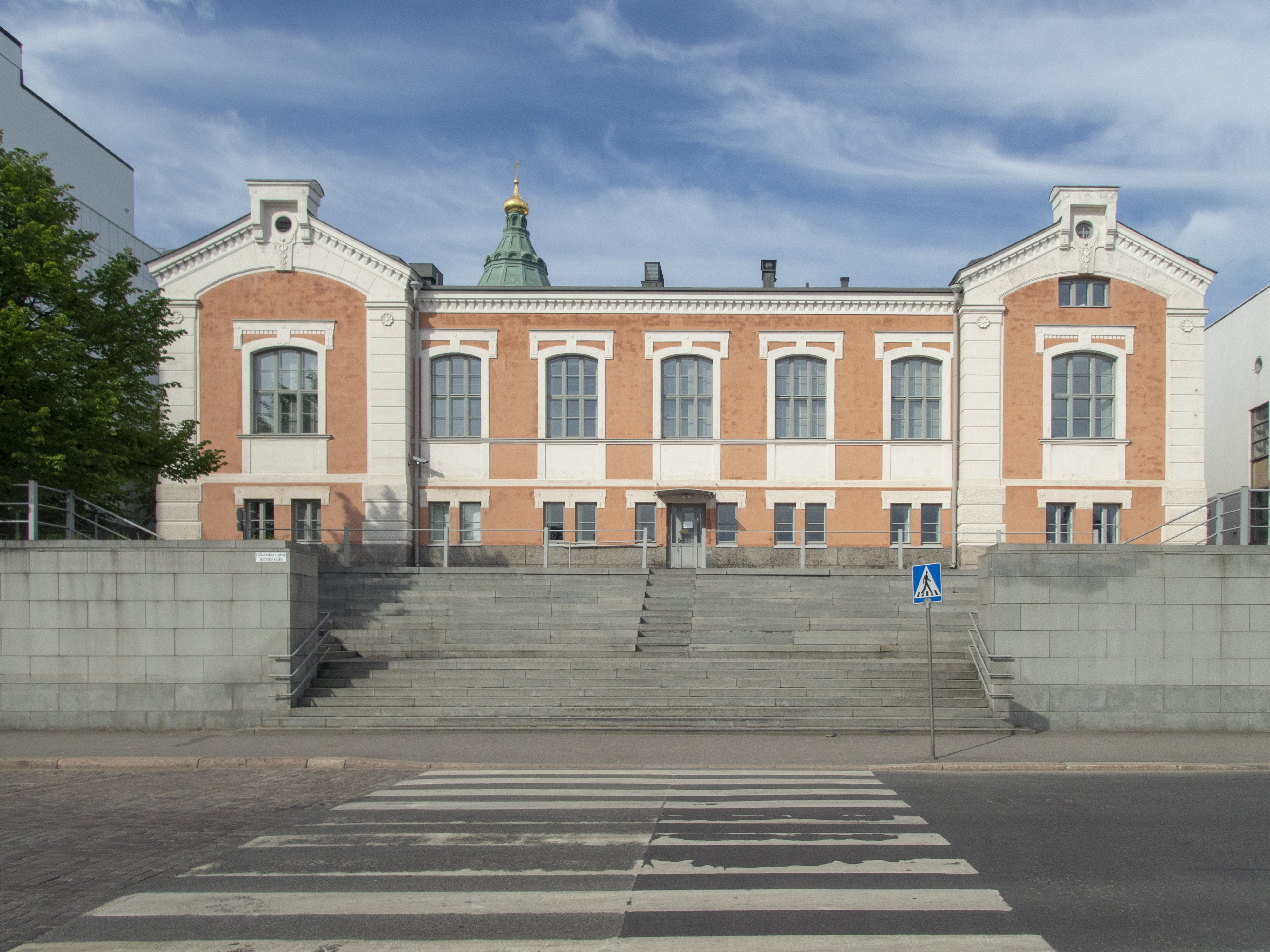 Kanavakatu 4, Helsinki. The former mint building in the Katajanokka district in Helsinki. The building designed by architect E. B. Lohrman was completed in 1864.